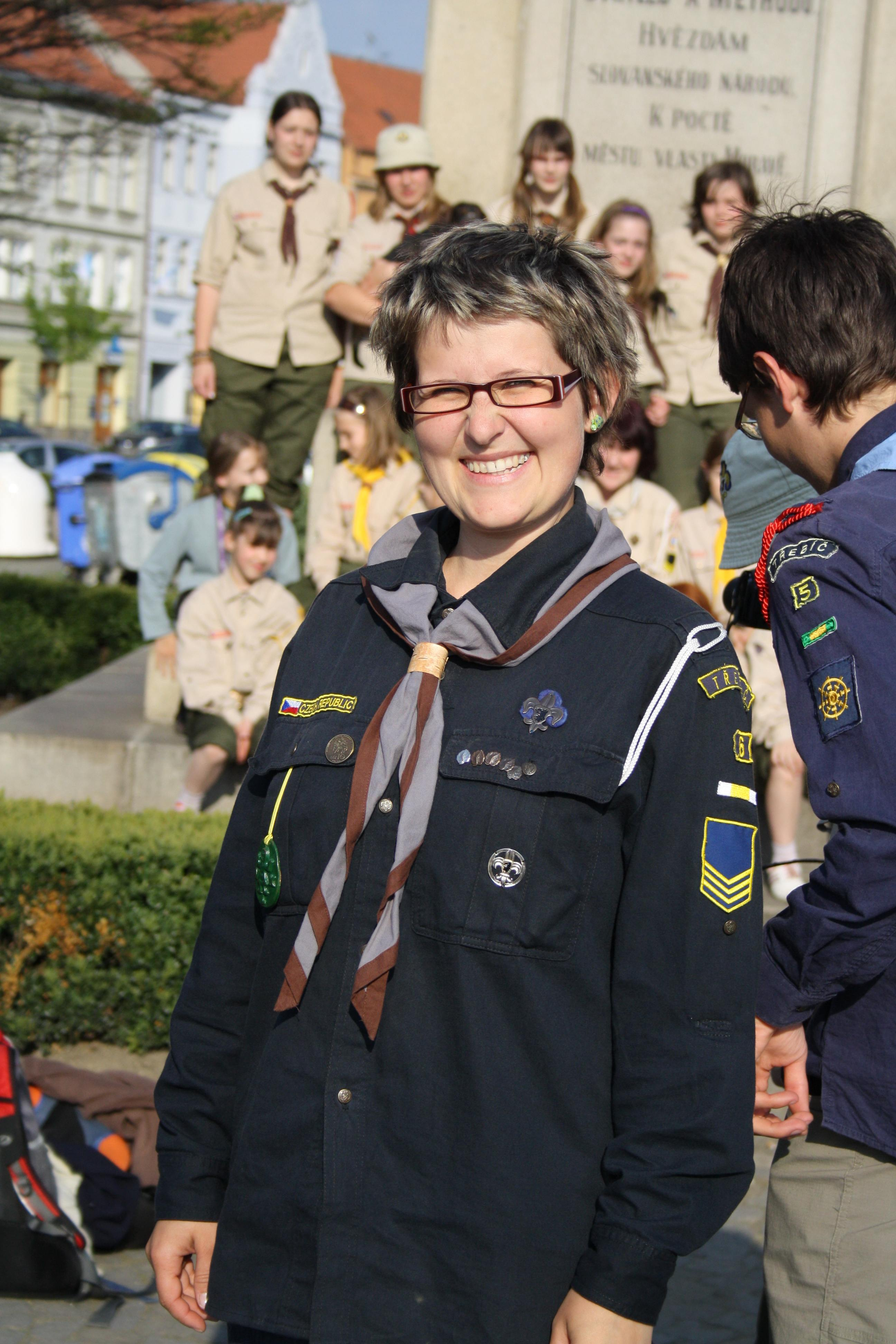 Water Scout captain in uniform in Třebíč, Czech Republic.